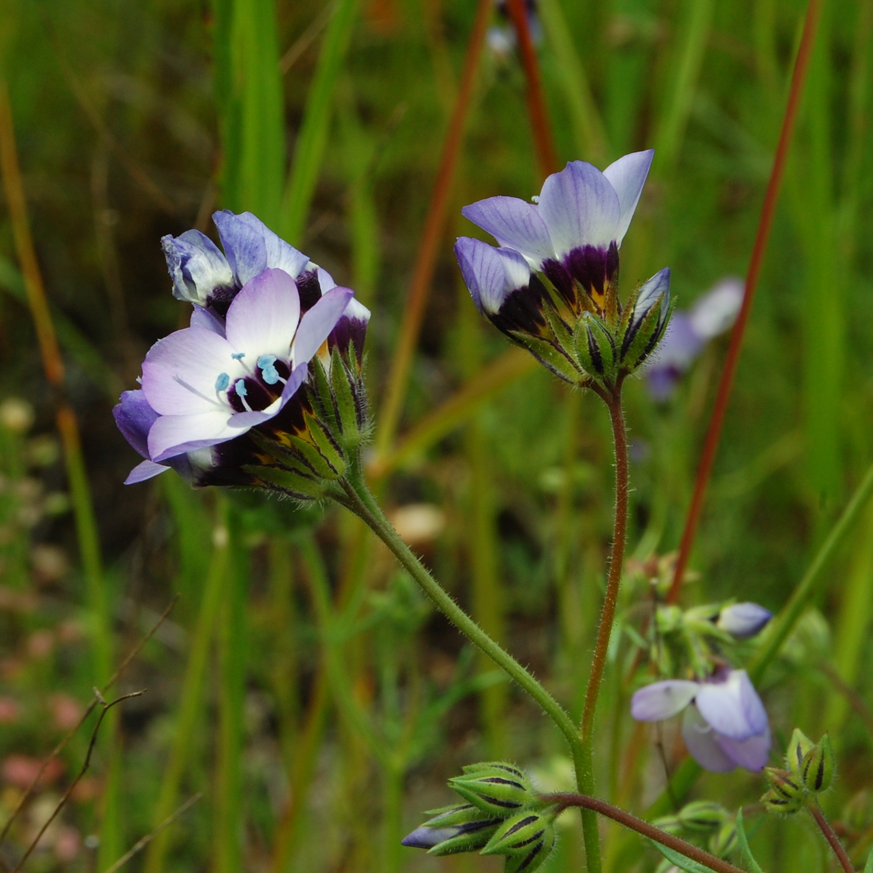 Bird's-eye Gilia. Gilia tricolor. Made in Almaden Quicksilver County Park, San Jose, California, USA. Identified with help of